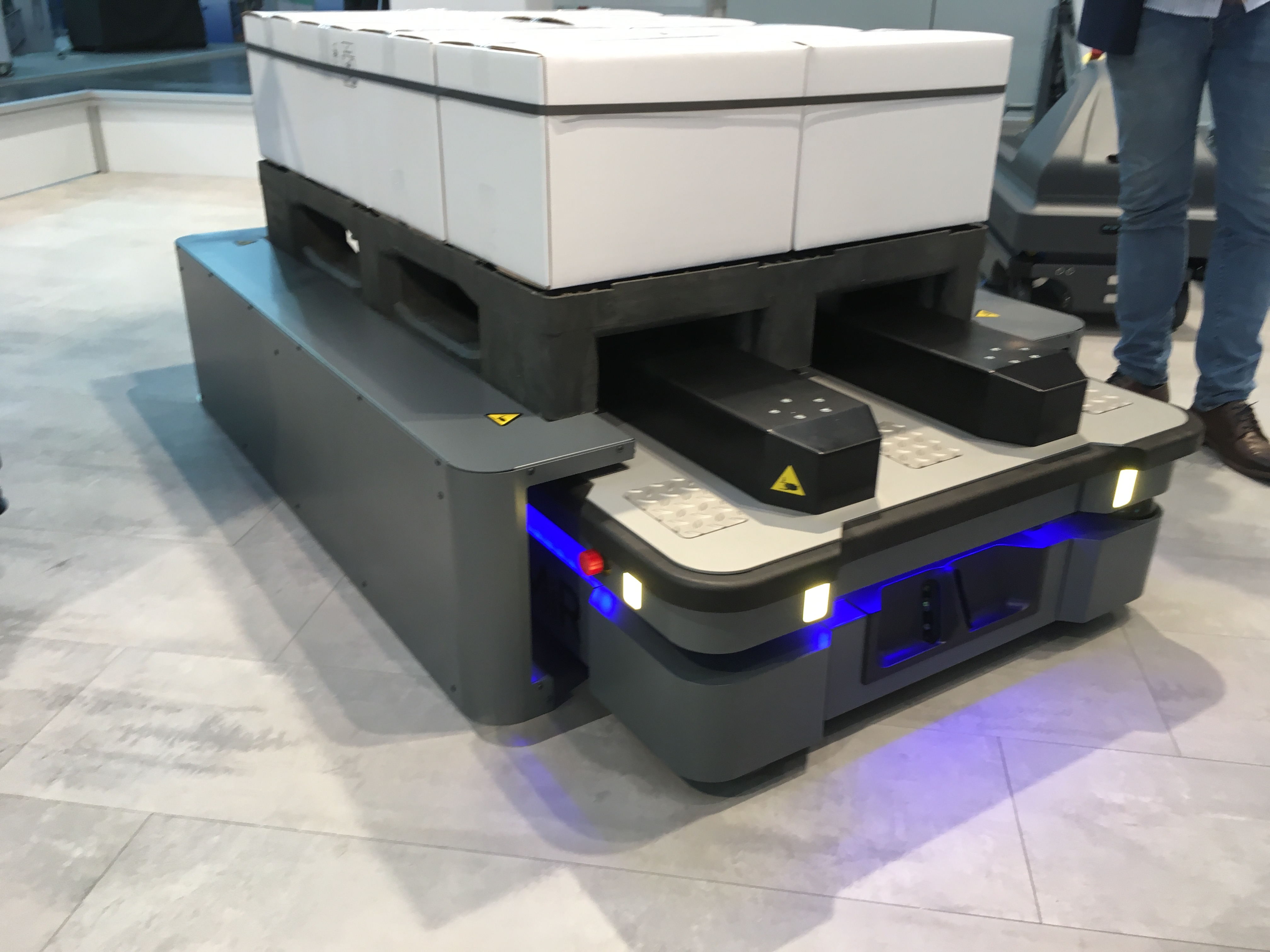 Mobile Industrial Robots